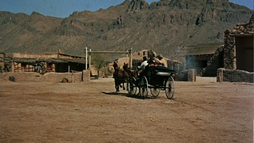 Barouche passing through Old Tucson in Buchanan Rides Alone (1958)